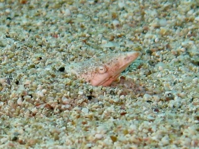 Apterichtus caecus photographed in Crete (Greece).